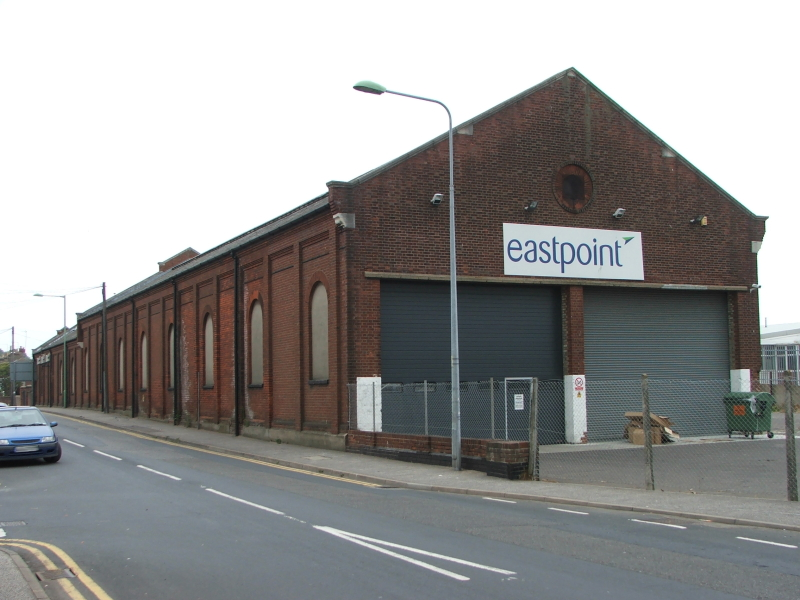 Lowestoft tram shed